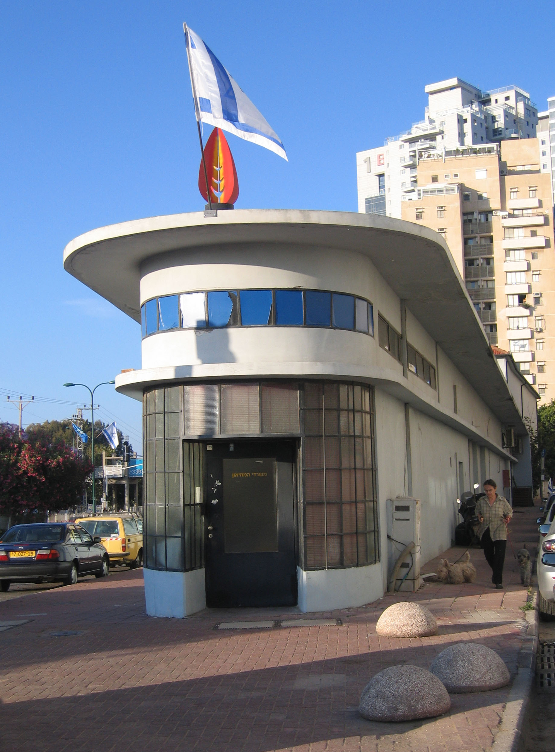 Museum of Israeli Art, Ramat Gan